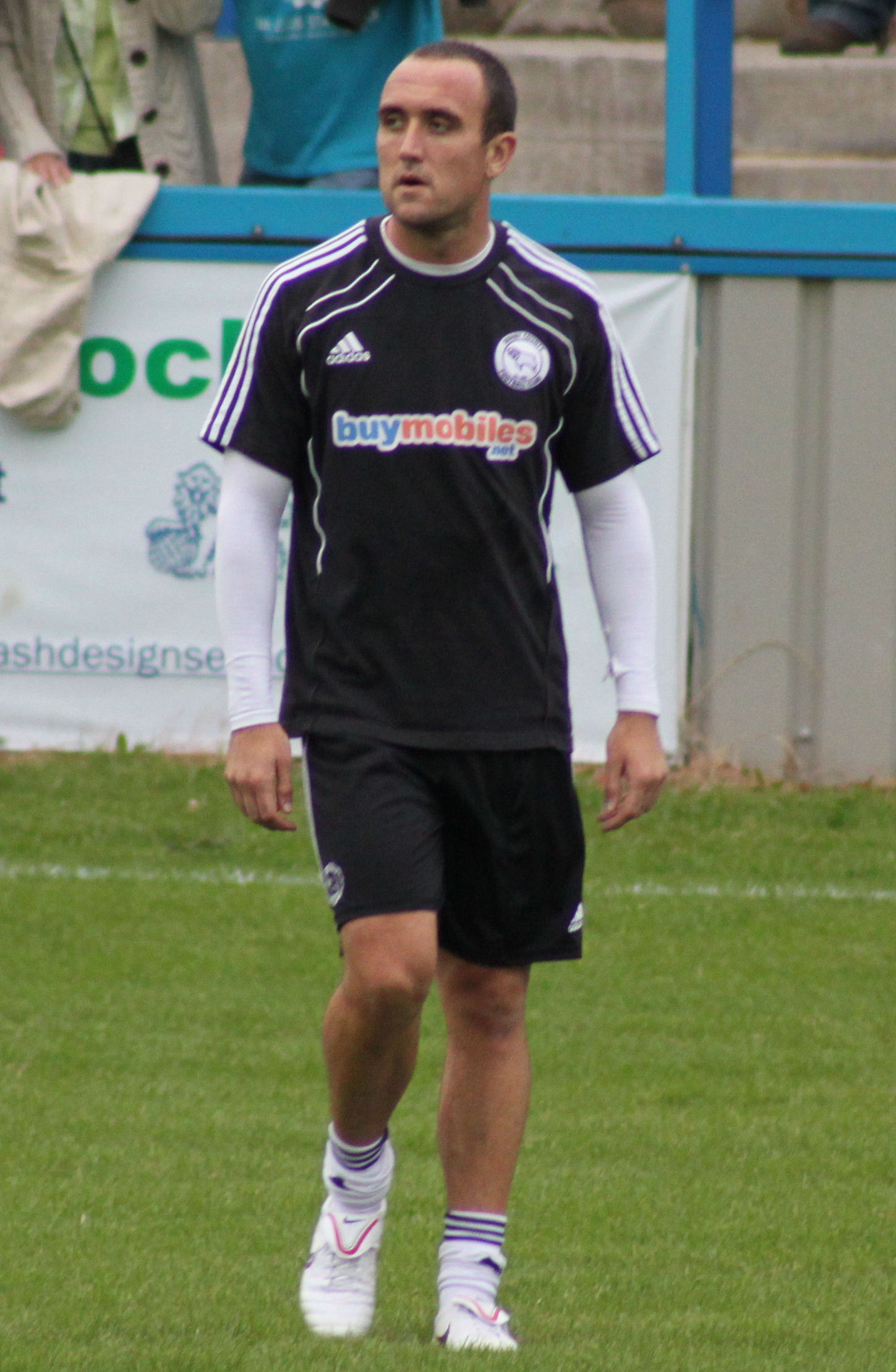 Matlock Town vs Derby County XI 26-07-11 023